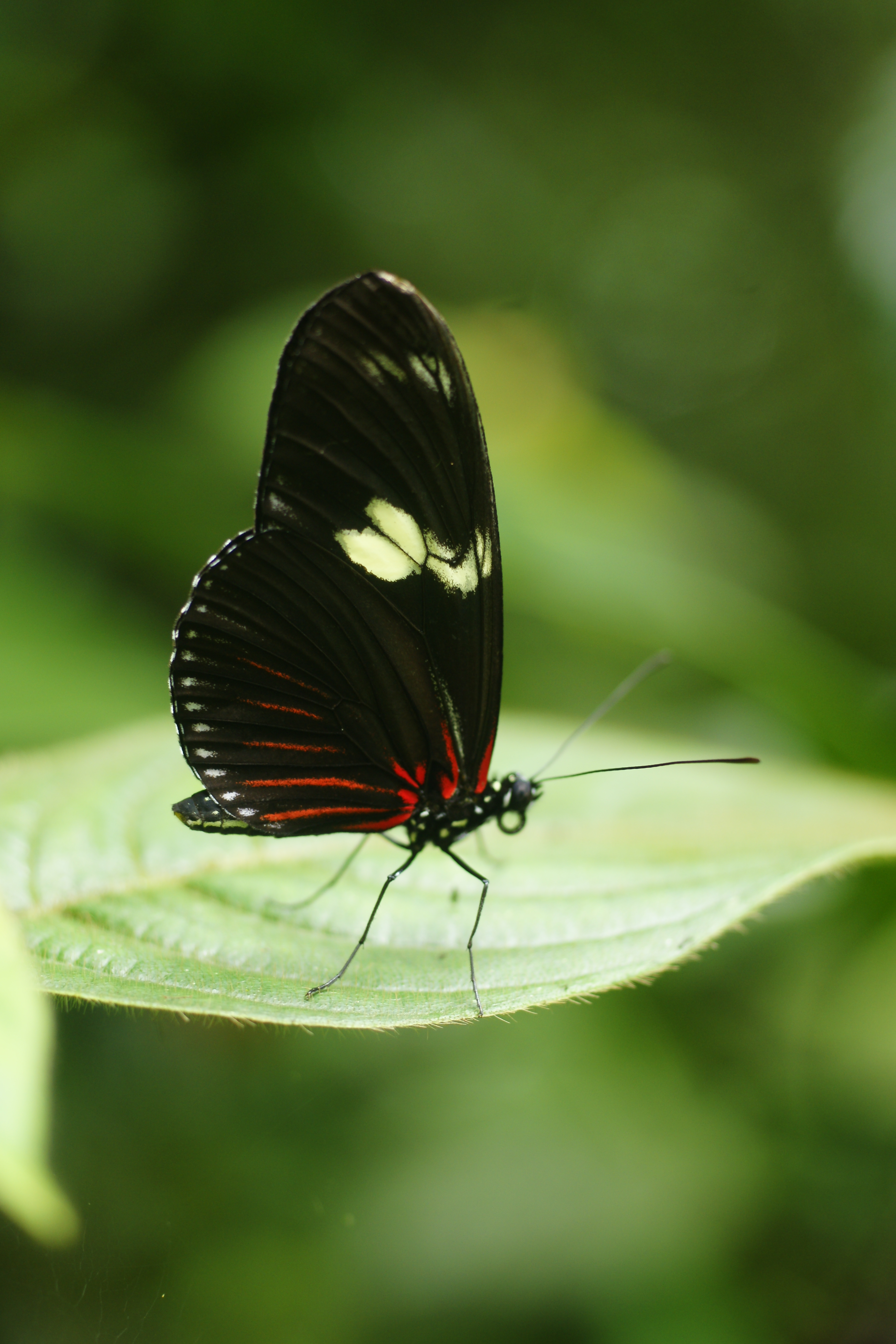 Doris Longwing near Las Horquetas, Costa Rica